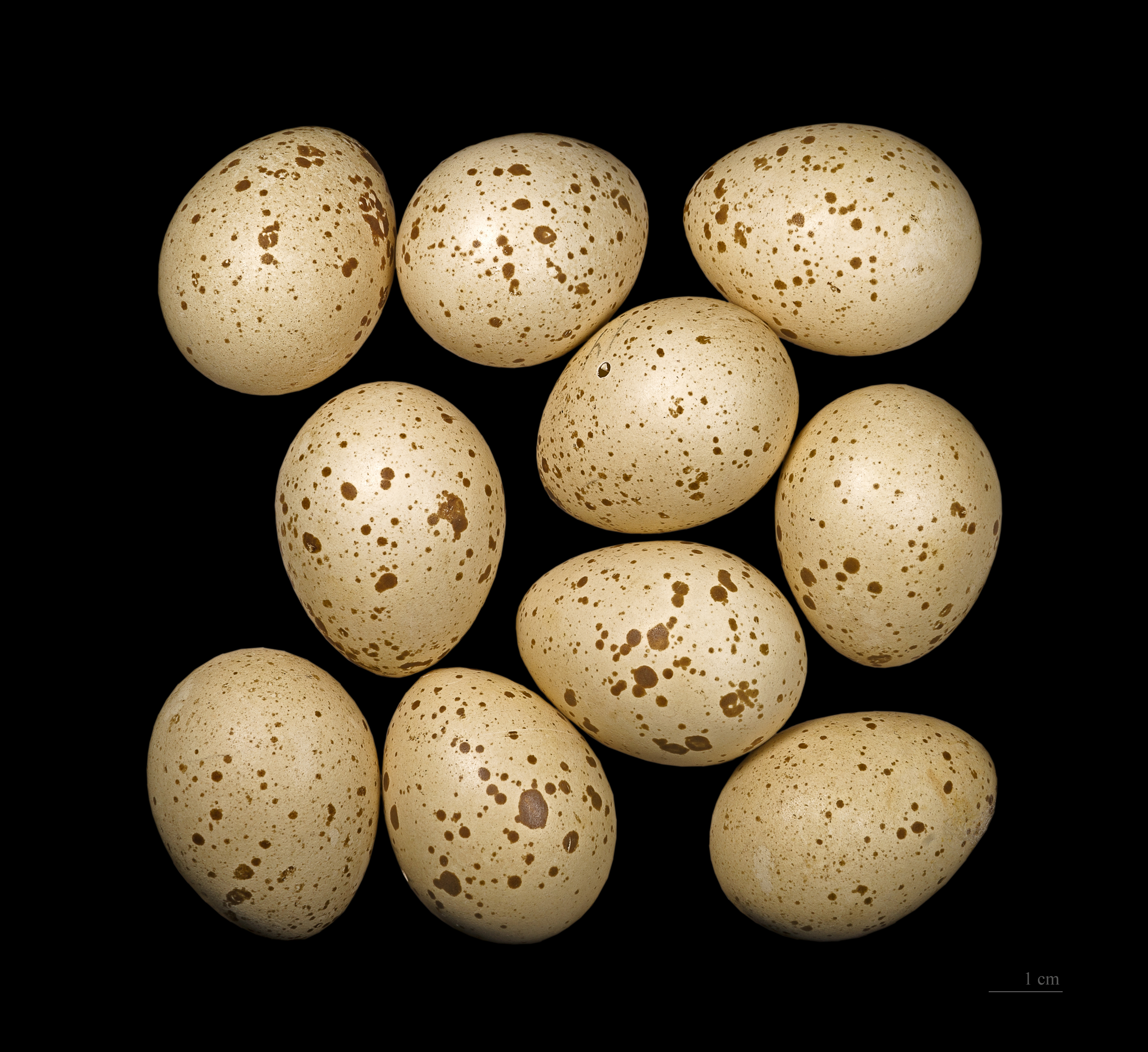 Egg of Hazel Grouse. Collection Jacques Perrin de Brichambaut. Locality: Haapajärvi Finland